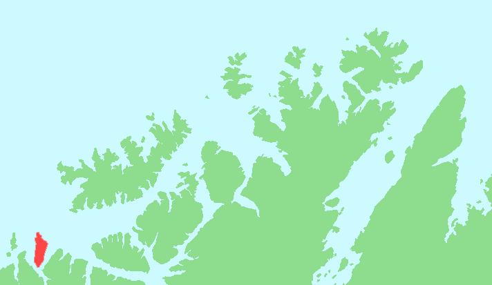 Locator map of Silda, Finnmark, Norway